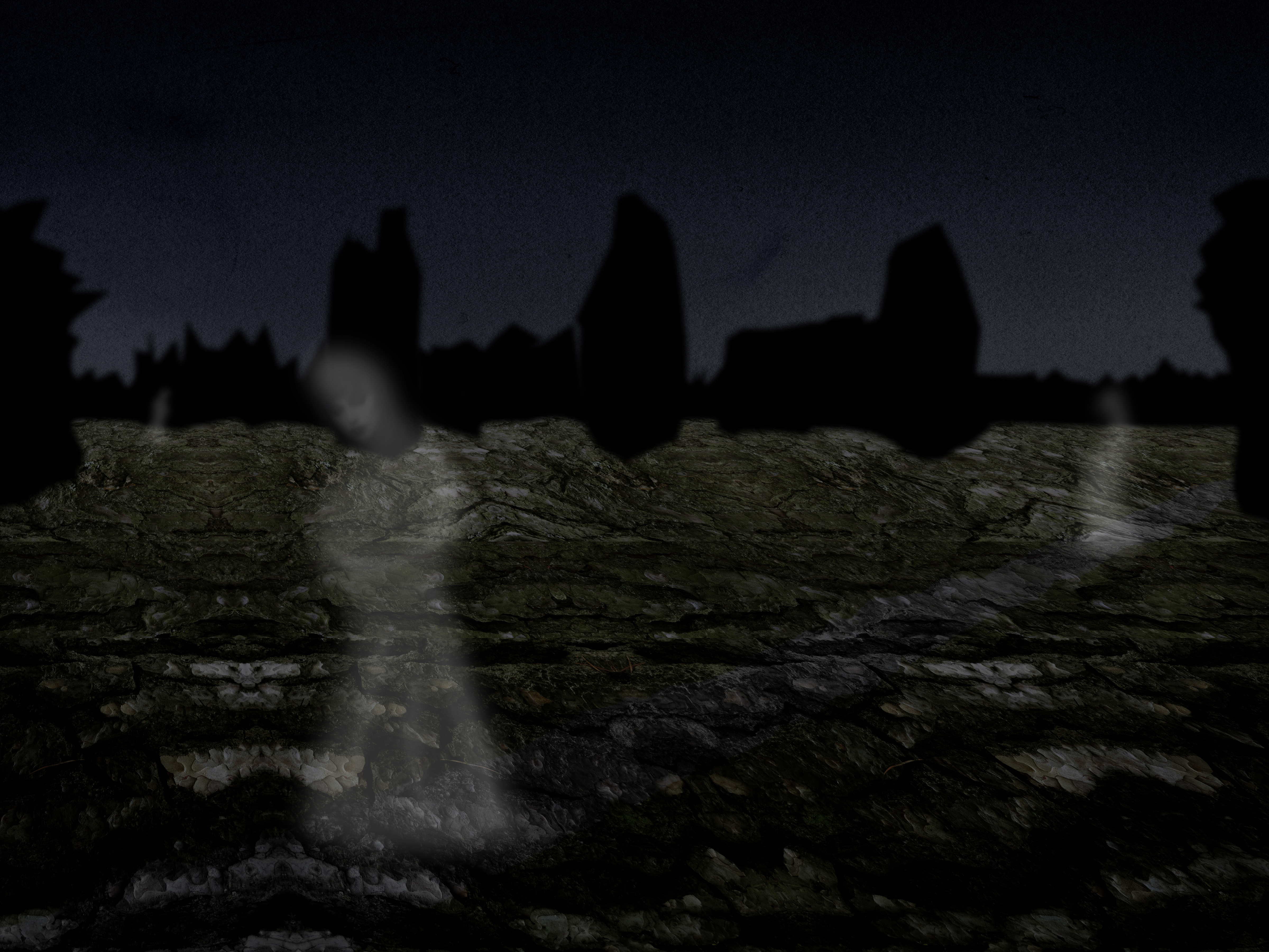 Three ghosts in a nightly landscape.